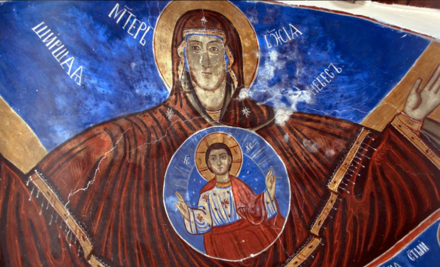 Platytera in St. Nicholas Church, Braychino